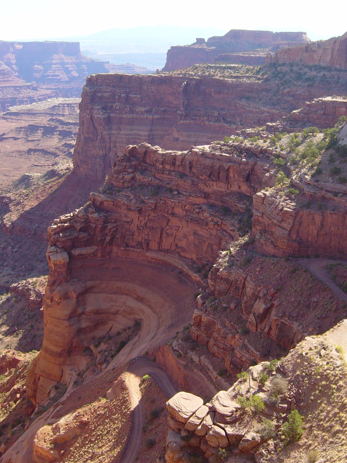 Shafer Canyons Overlook, Canyonlands National Park, Utah.